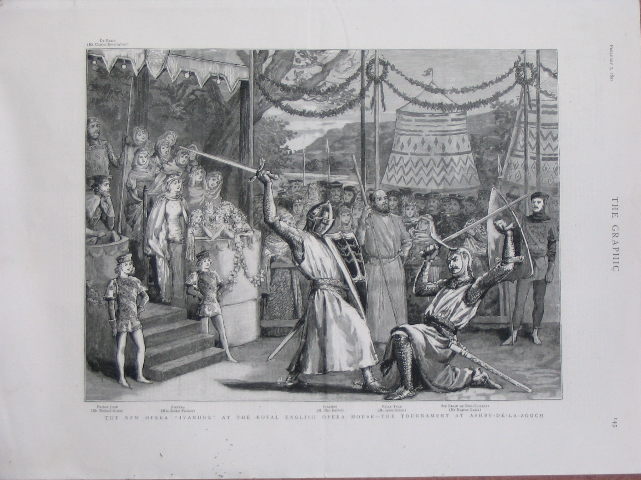 1891 illustration of Ivanhoe in The Graphic